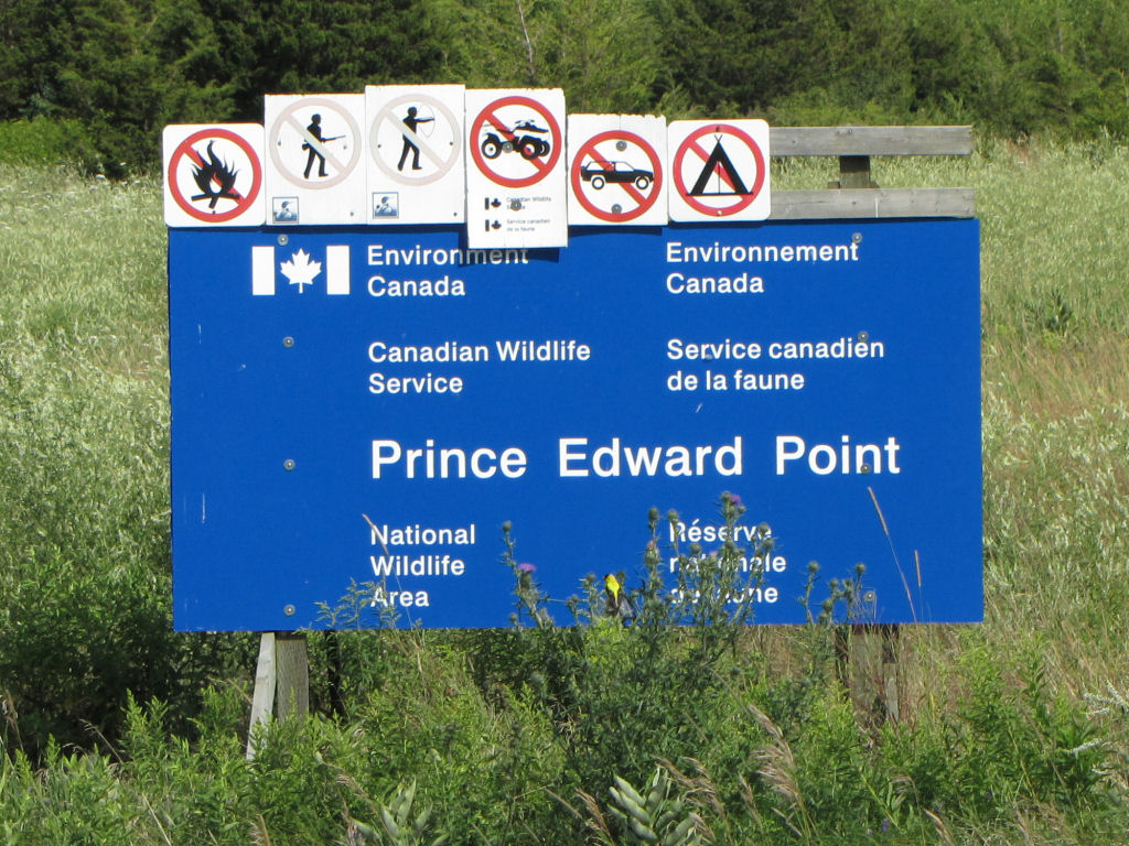 Prince Edward Point National Wildlife Area Sign